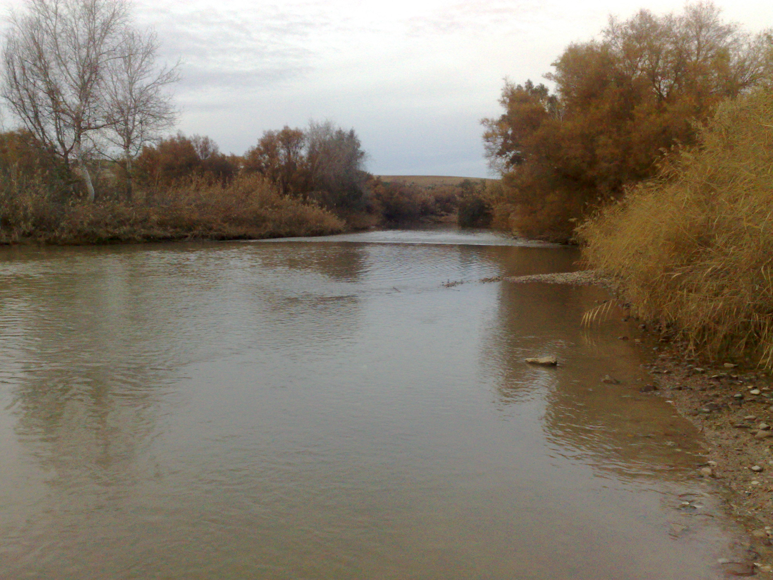 The river Genil